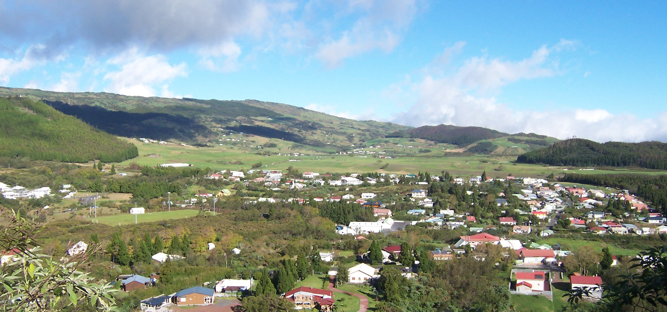 Bourg-Murat, one of the villages of the commune of Le Tampon (Réunion island)